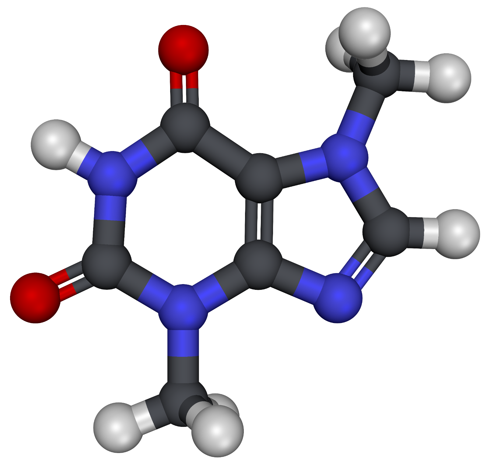 3D ball-and-stick model of a theobromine molecule.